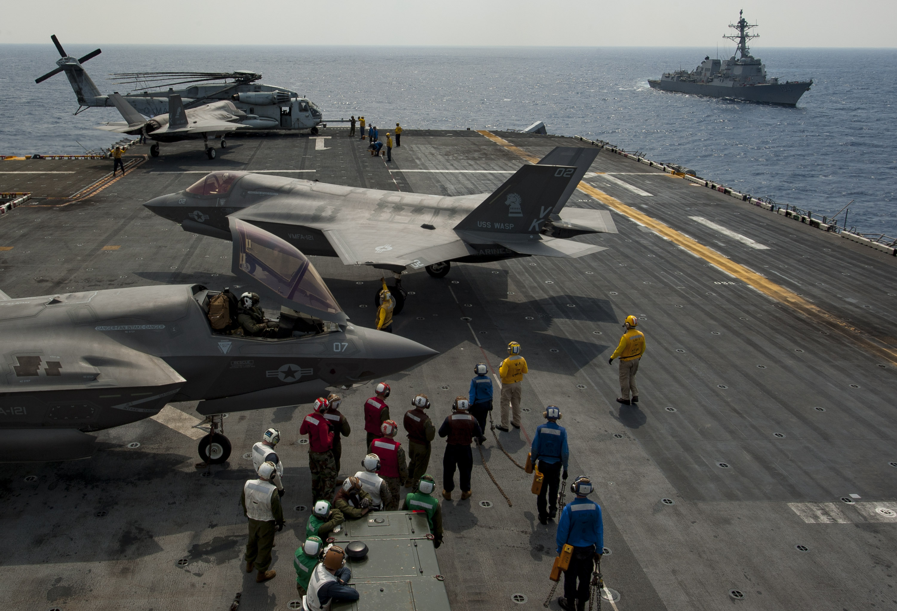 PHILIPPINE SEA (April 19, 2018) An F-35B Lightning II aircraft assigned to the "Green Knights" of Marine Fighter Attack Squadron 121 (VMFA-121) maneuver on the flight deck of the amphibious assault ship USS Wasp (LHD 1) following a tactical recovery of aircraft and personnel. (U.S. Navy photo by Mass Communication Specialist 3rd Class Michael Molina/Released)180419-N-VK310-0045